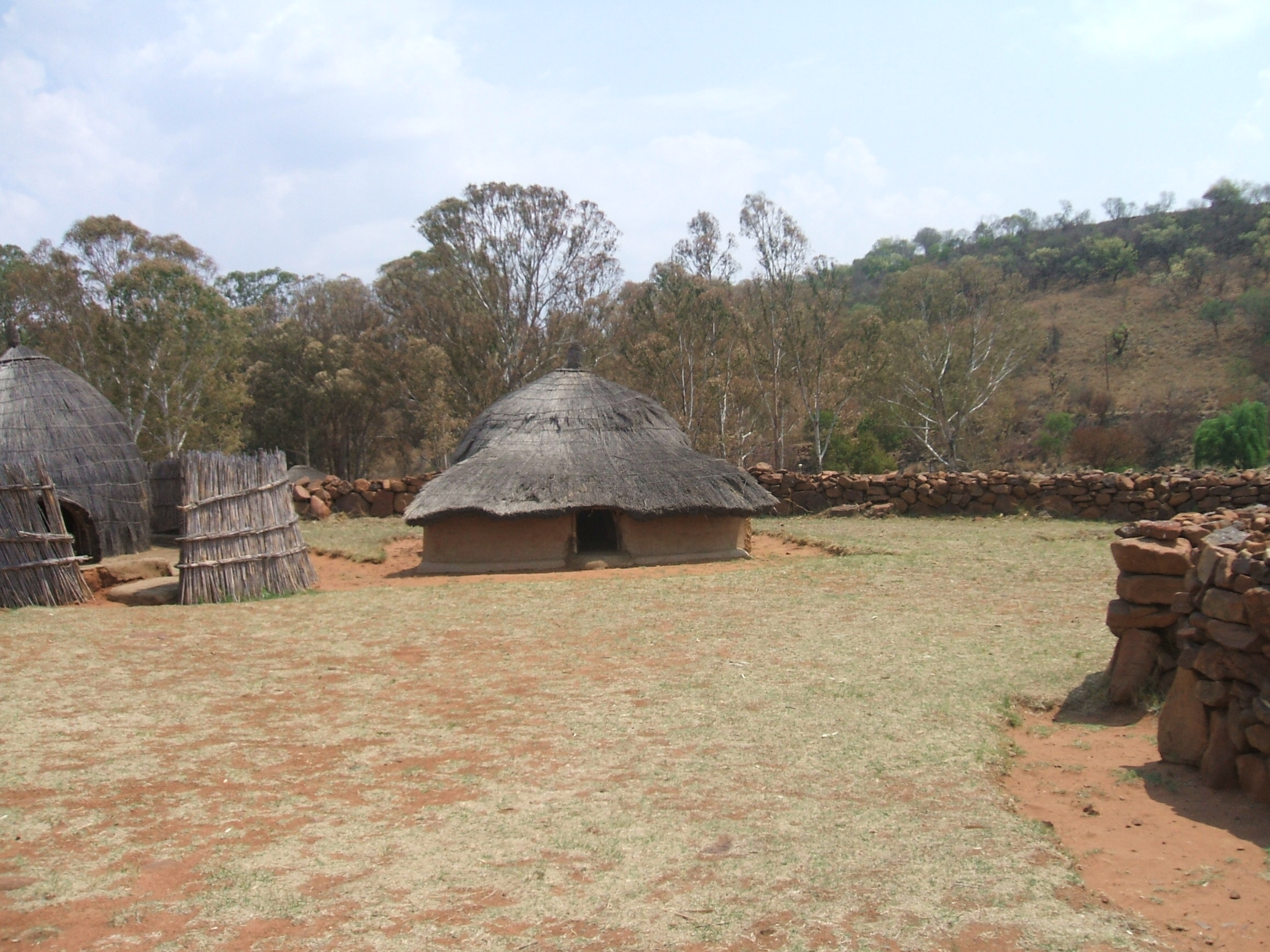 Ndebele Teachers Training